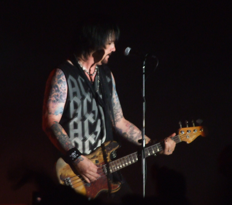 The American bass guitarist Eric Brittingham with Cinderella at Festivalna Hall in Sofia, Bulgaria.